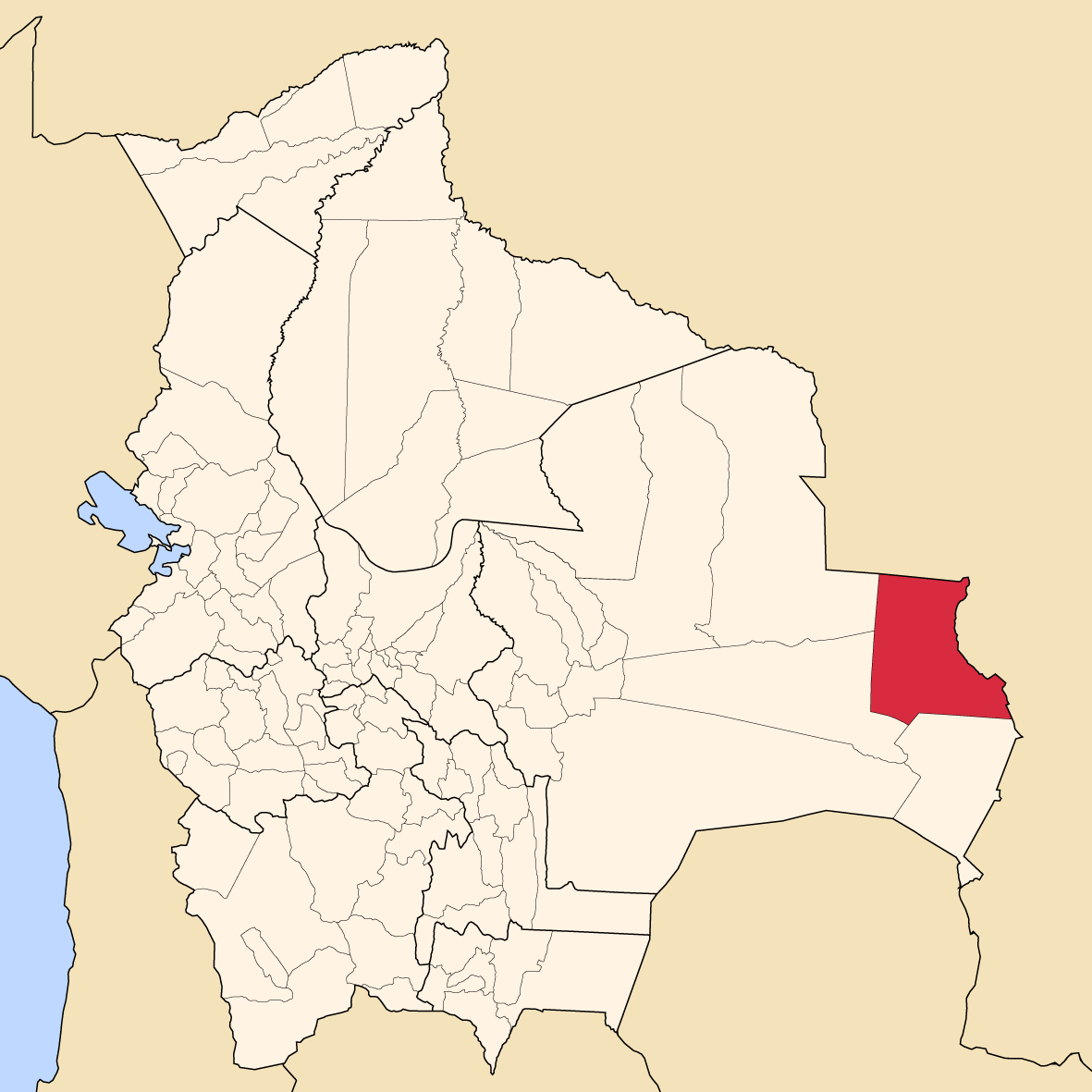 Map of Bolivia showing Ángel Sandoval province, Santa Cruz